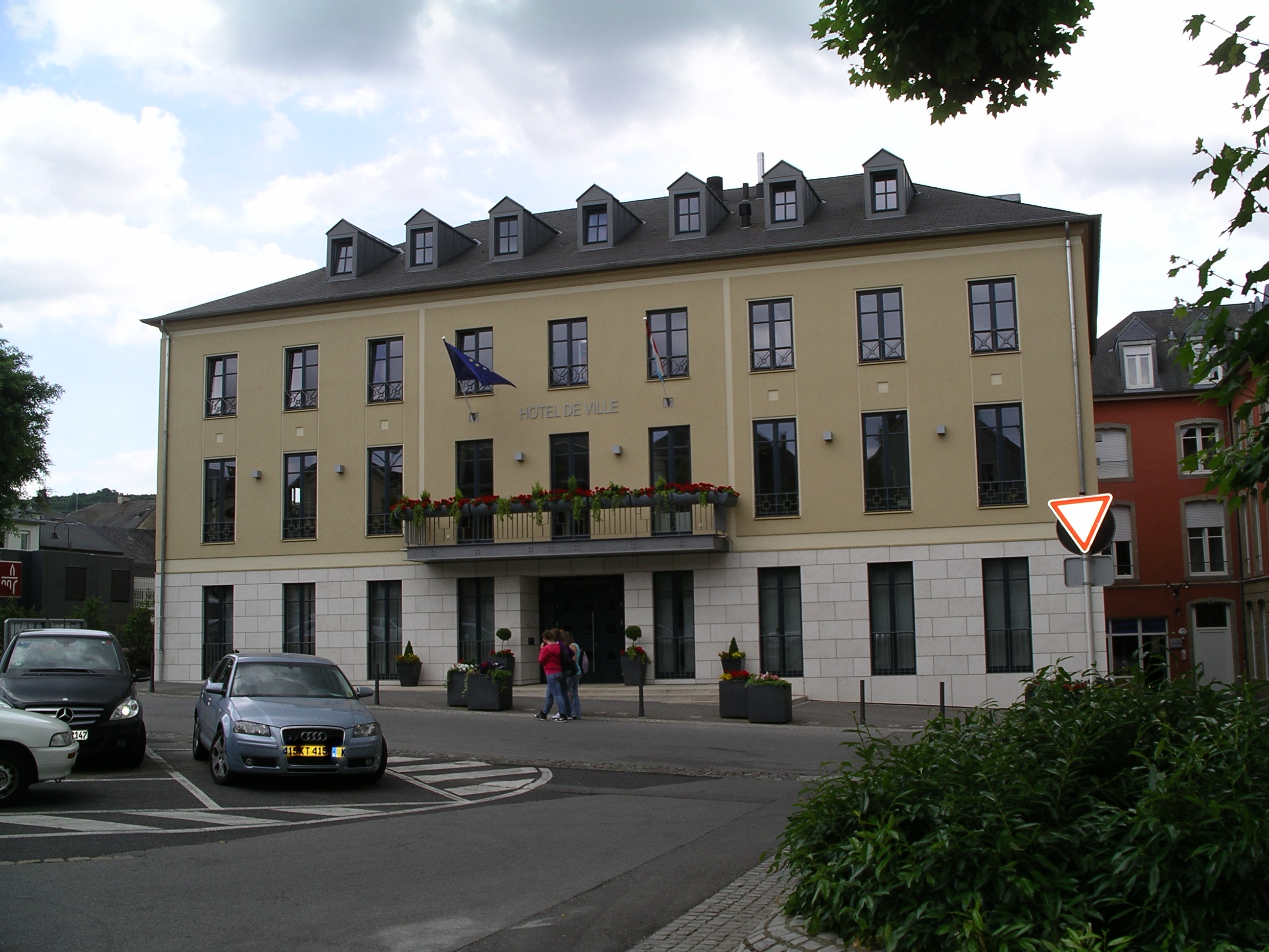 Hotel de Ville, Grevenmacher, Luxembourg